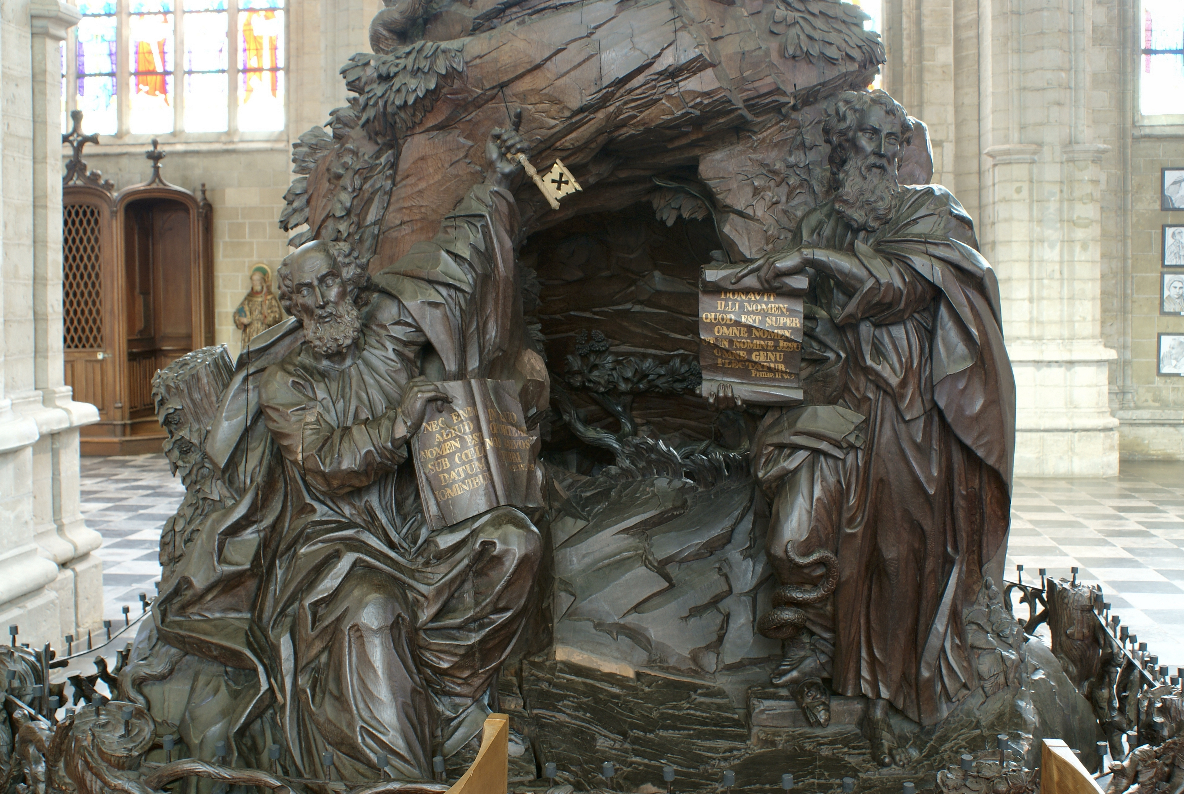 St. Germanus Church,Tienen, Belgium, pulpit (detail) by Pieter Valckx